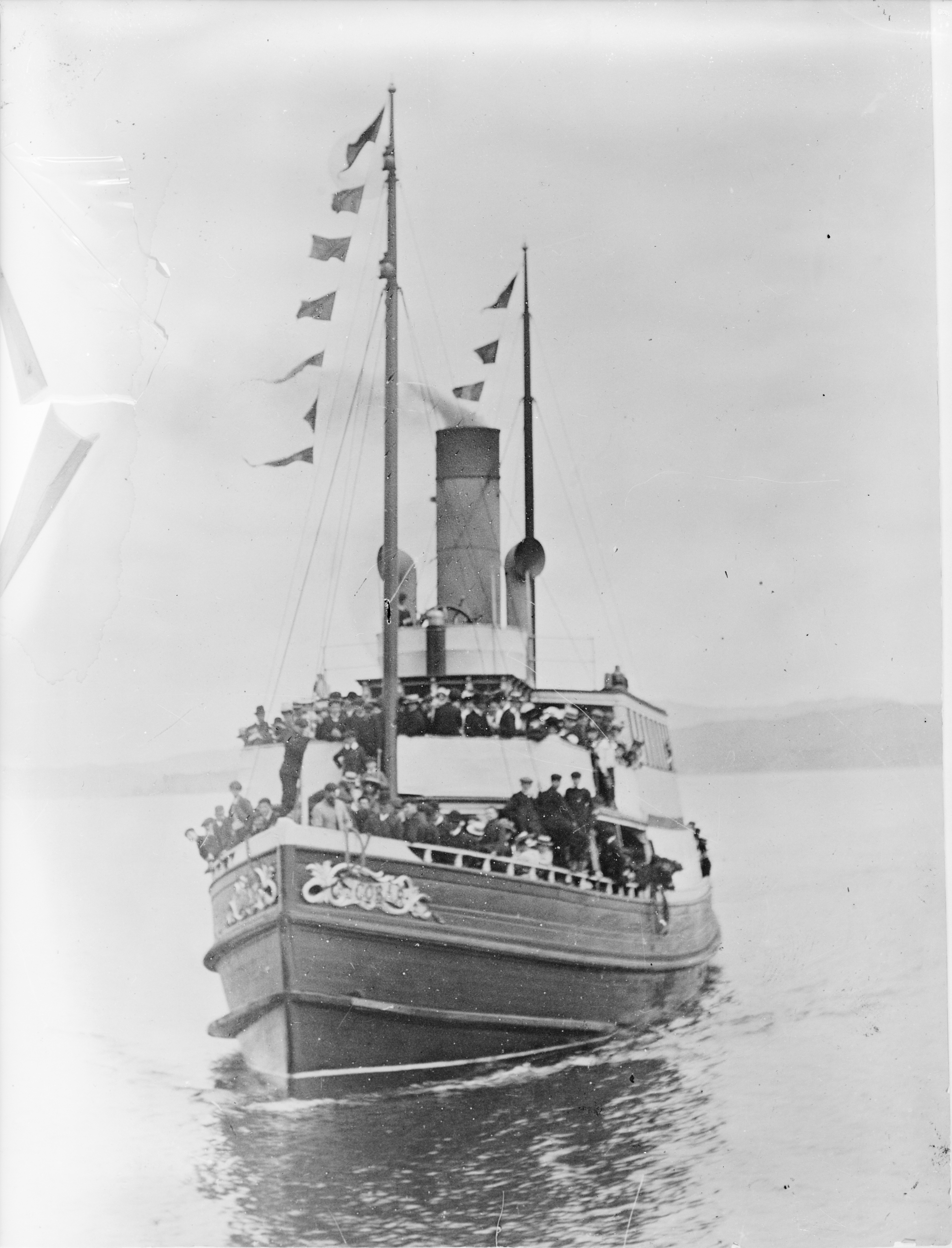 s s Cobar about to drop passengers at an Eastbourne wharf